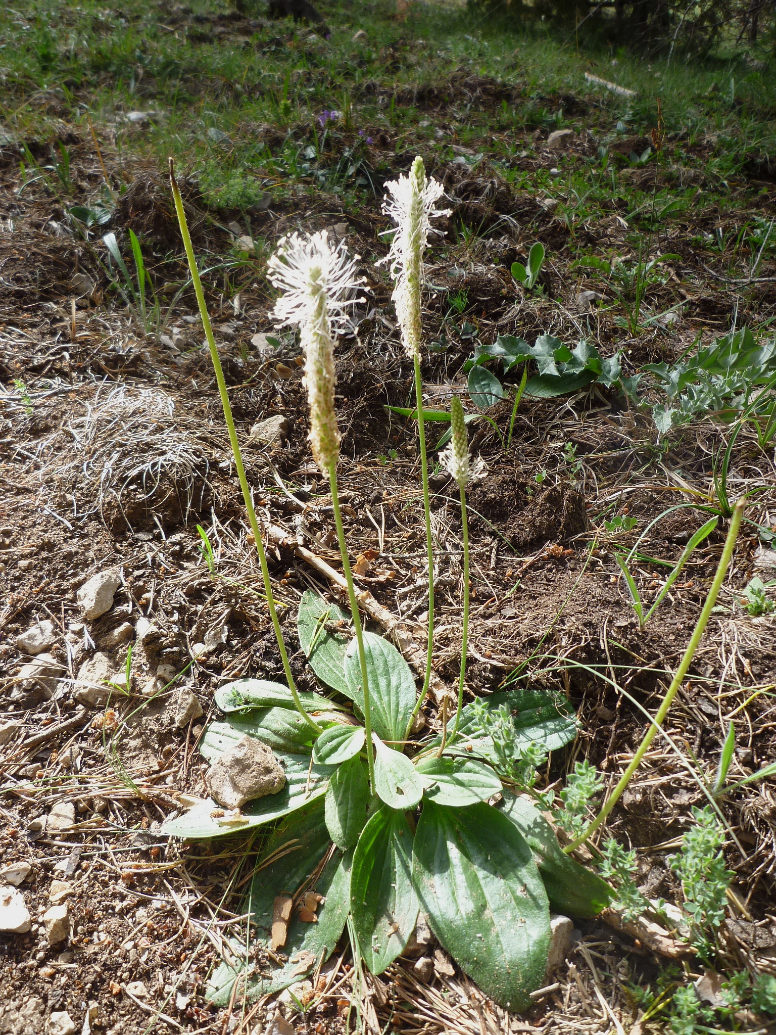 Plantago media. In la Bòfia, Tuixén (Alt Urgell - Catalunya). To 1.590 m. altitude